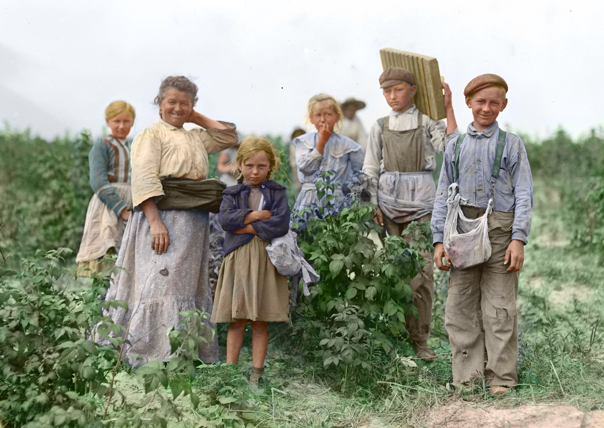 Hand coloured photo. Orginal description: "Mrs. Bissie and family (Polish). They all work in fields near Baltimore in summer and have worked at Biloxi, Miss. for two years. Location: Baltimore, Maryland."